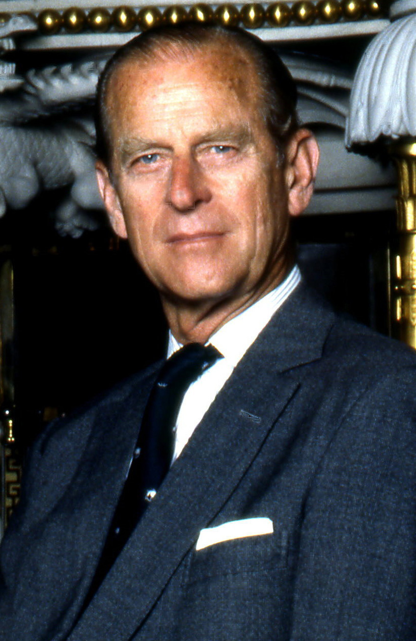 Crop of photograph of Prince Philip, Duke of Edinburgh, by Allan Warren